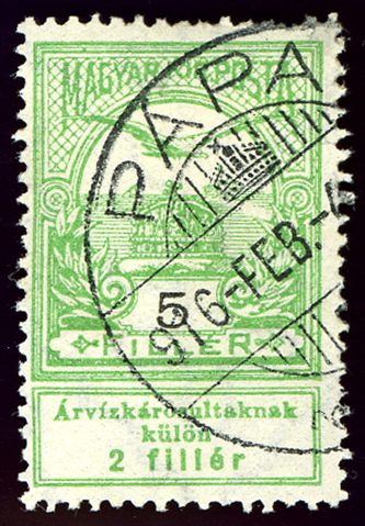 Kingdom of Hungary 5 + 2 fillér stamp, emerald (SG193) issue 1913, cancelled at PÁPA (Veszprem county) in 1916, Hungary.